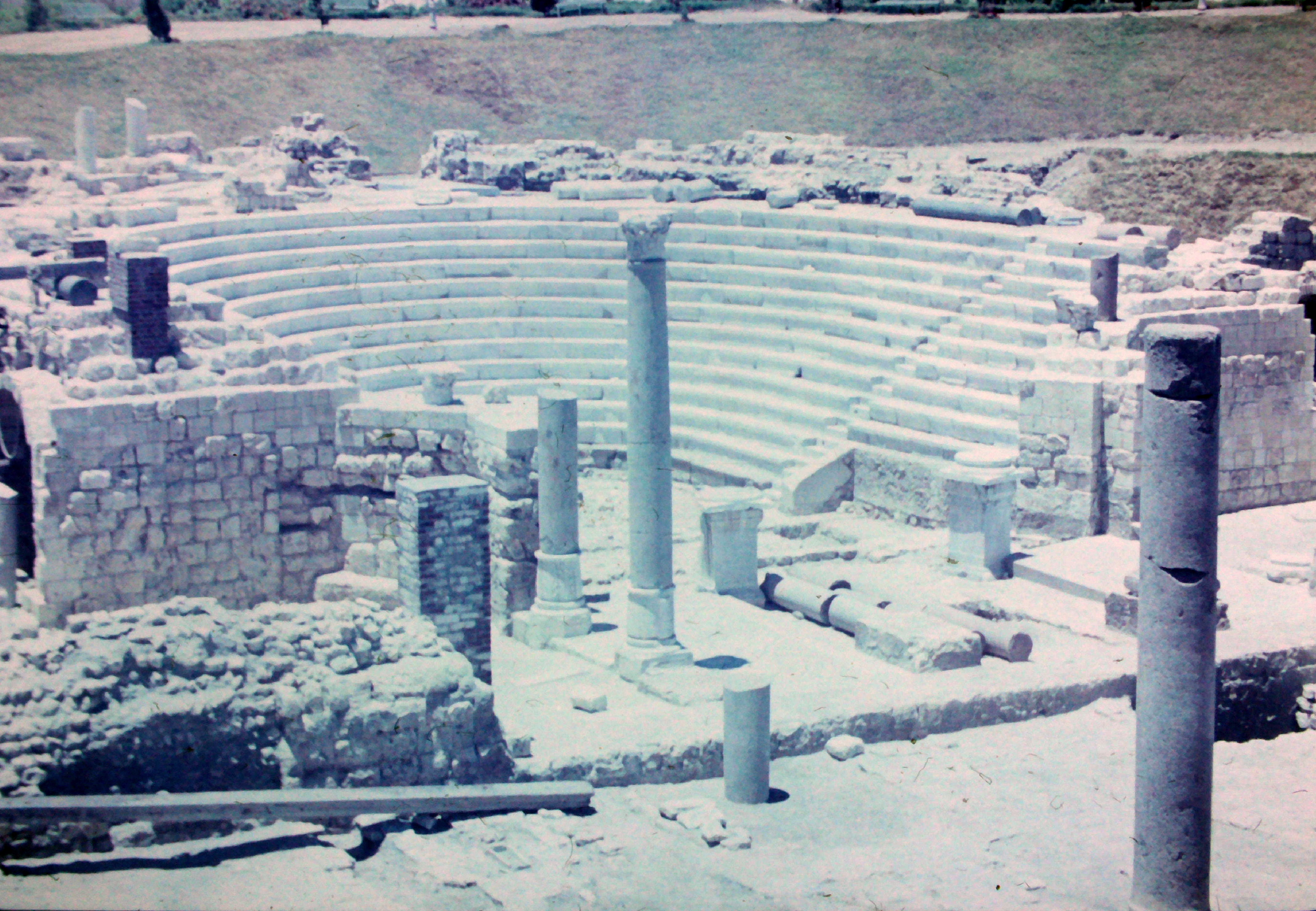 Hellenistic Theater in Alexandria